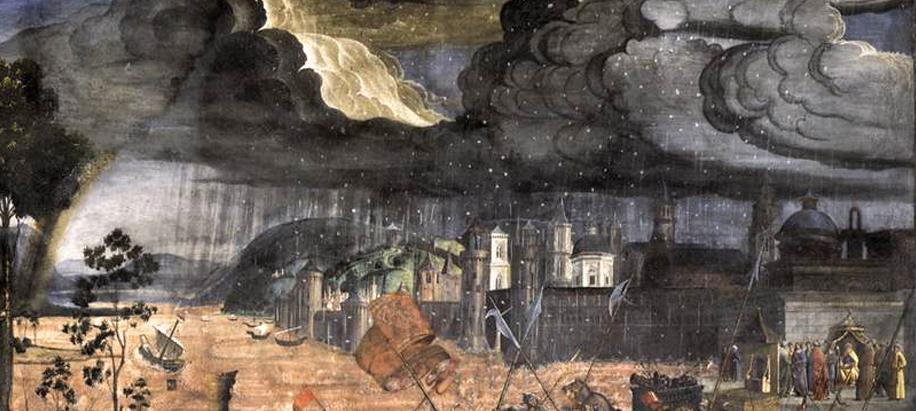 ROSSELLI, Cosimo Crossing of the Red Sea Fresco, 350 x 572 cm Cappella Sistina, Vatican